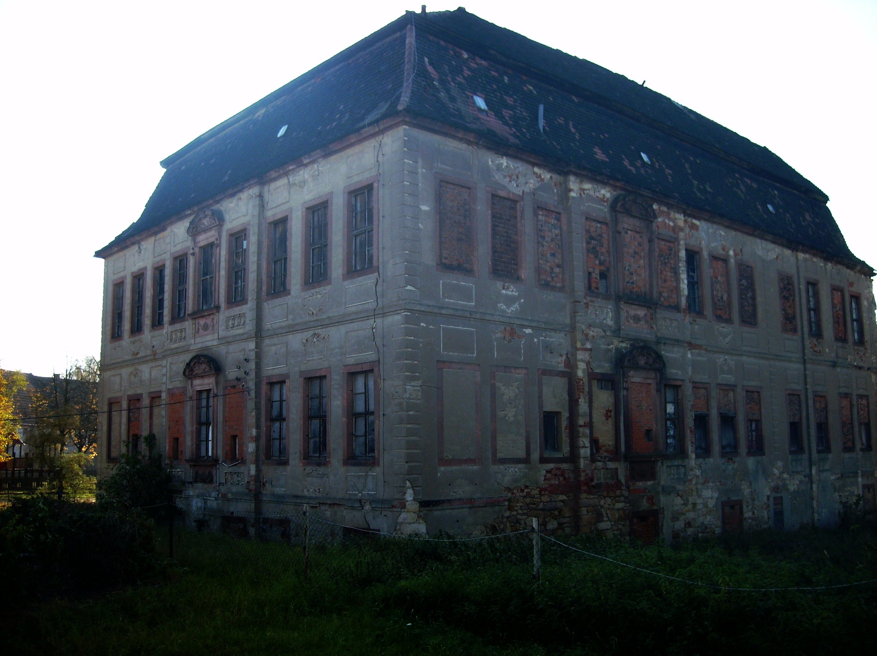 "Half-Castle" in Langenleuba-Niederhain (district of Altenburger Land, Thuringia)